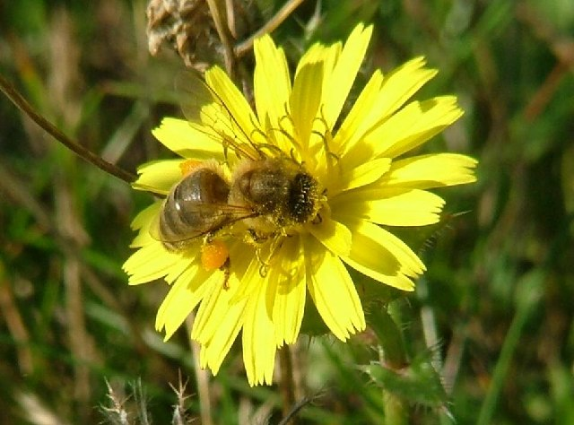 Honey bee on bristly ox tongue at Minet Country Park. An Internet argument about who was the "bees knees" caused me to seek out this subject. It was the only bee I saw foraging on that walk.